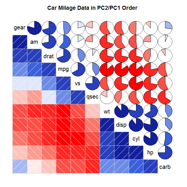 A correlogram plotted with R data